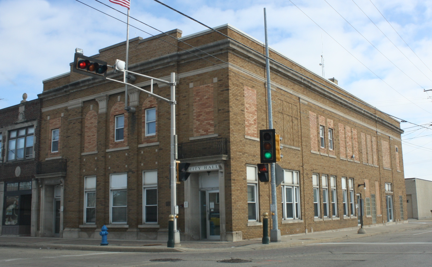 The city hall in Burlington, Wisconsin.